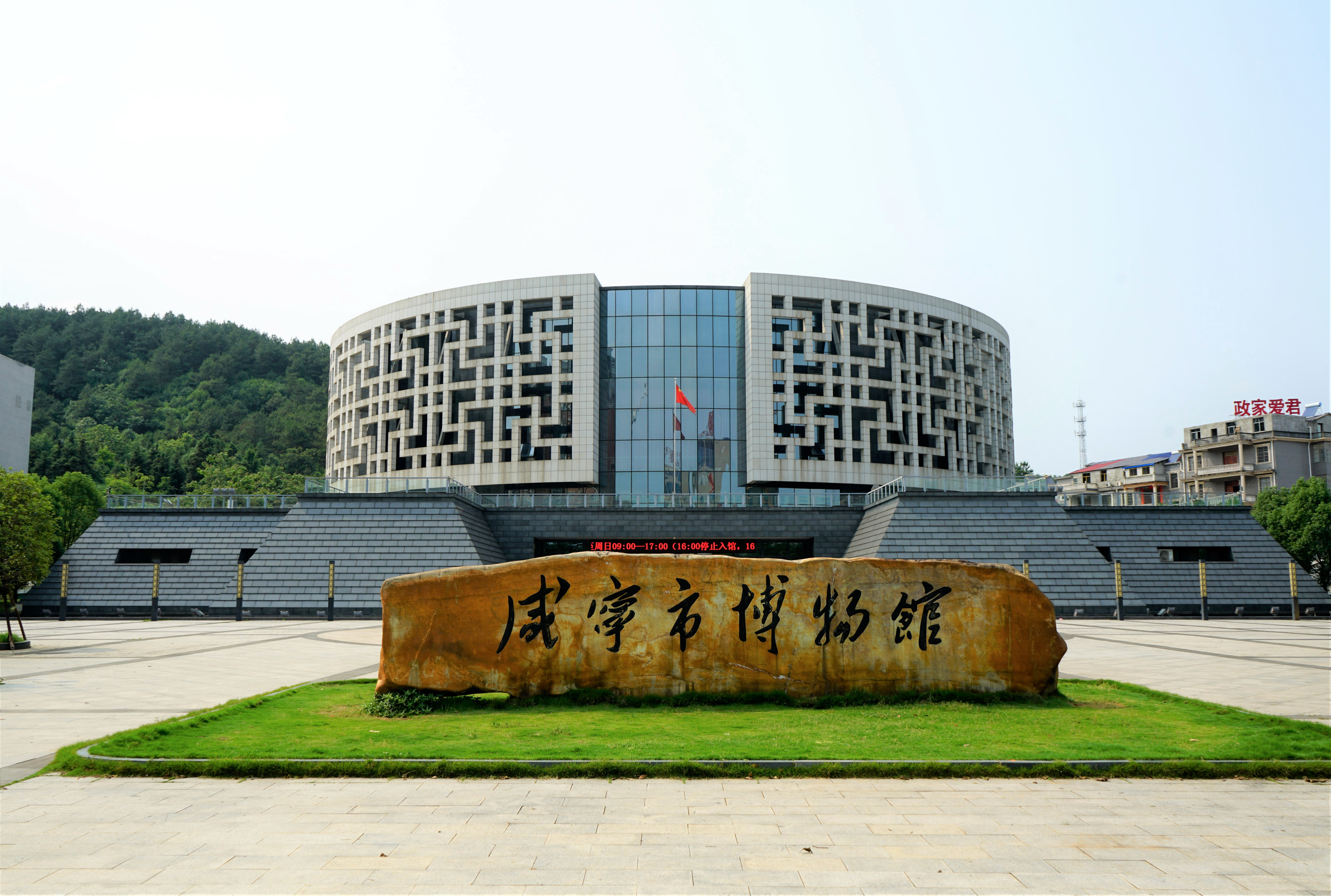 Xianning Museum building